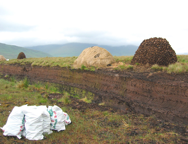 Peat cutting. Peat is cut from trenches about a metre deep, and dried in beehive-like mounds, often covered with straw, before being bagged